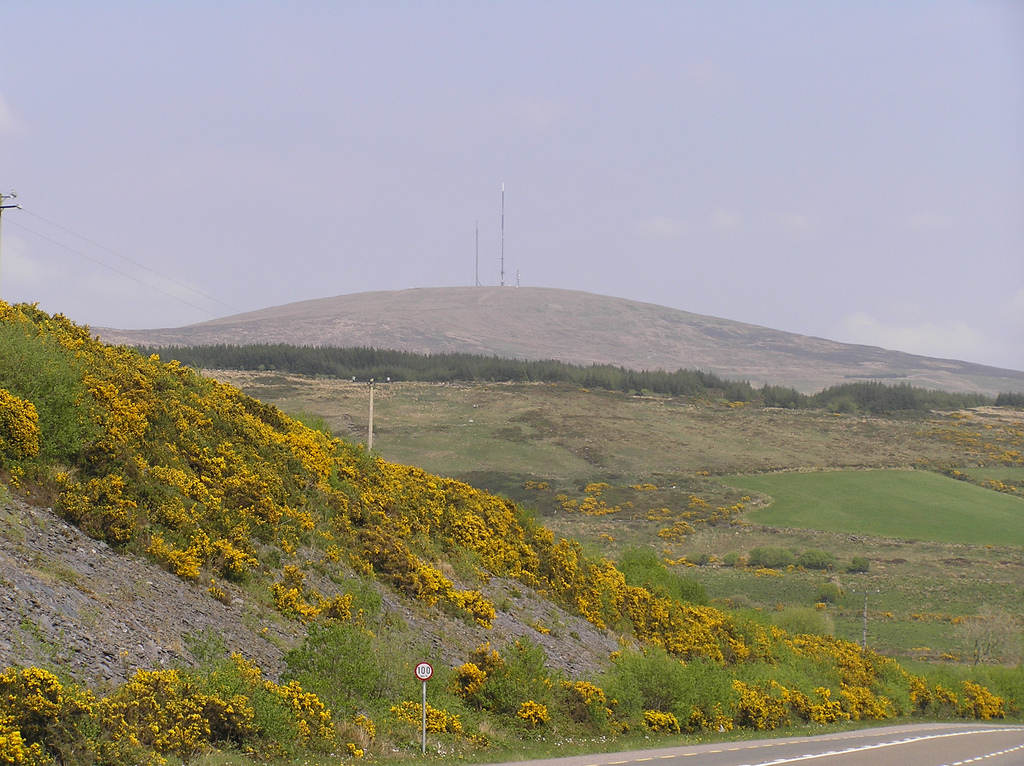 Mullaghanish RTÉ TV transmitter as taken from the N22 road from Killarney to Cork on the Cork side of county bounds.